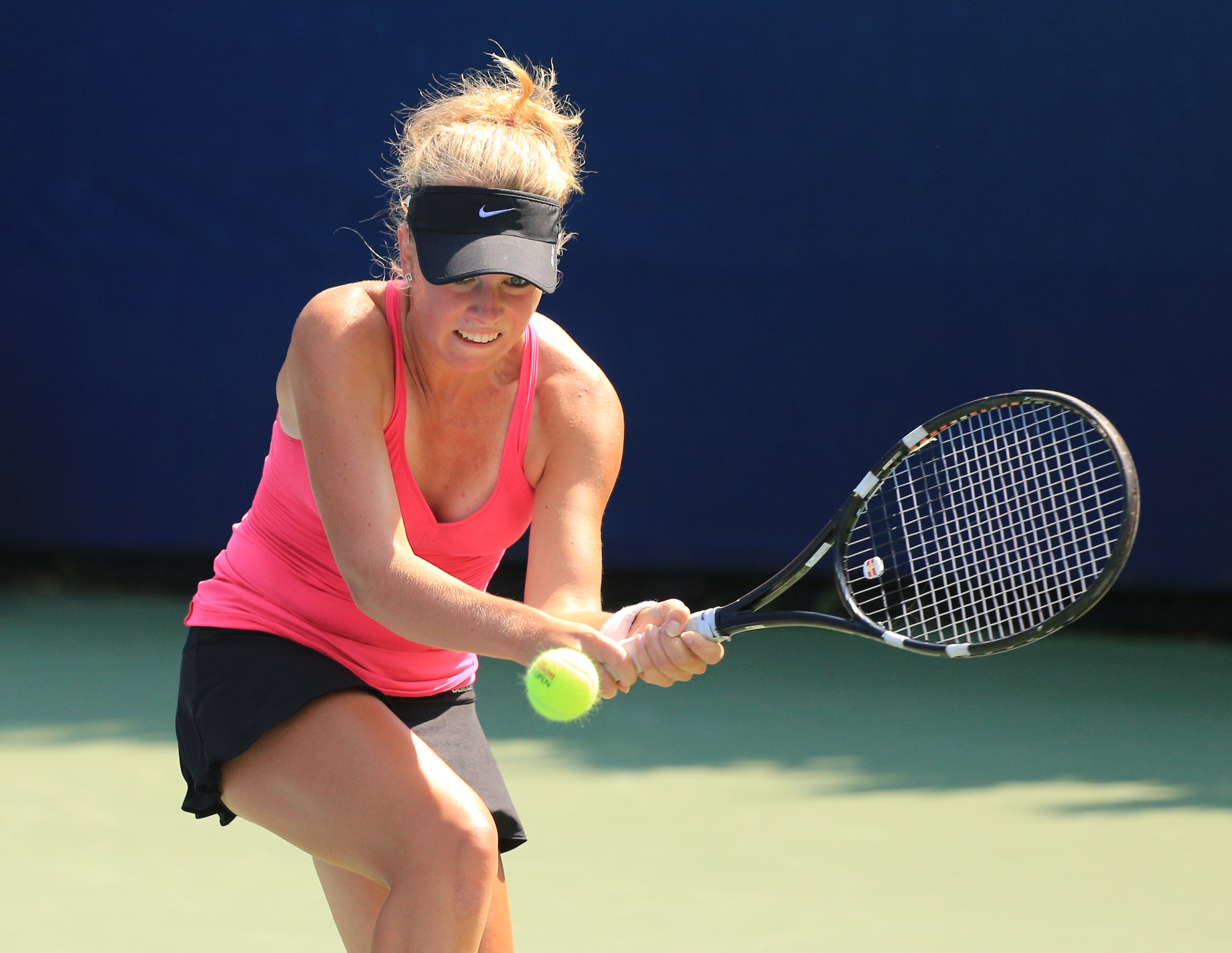 Magdalena Frech at the 2015 juniors US Open.